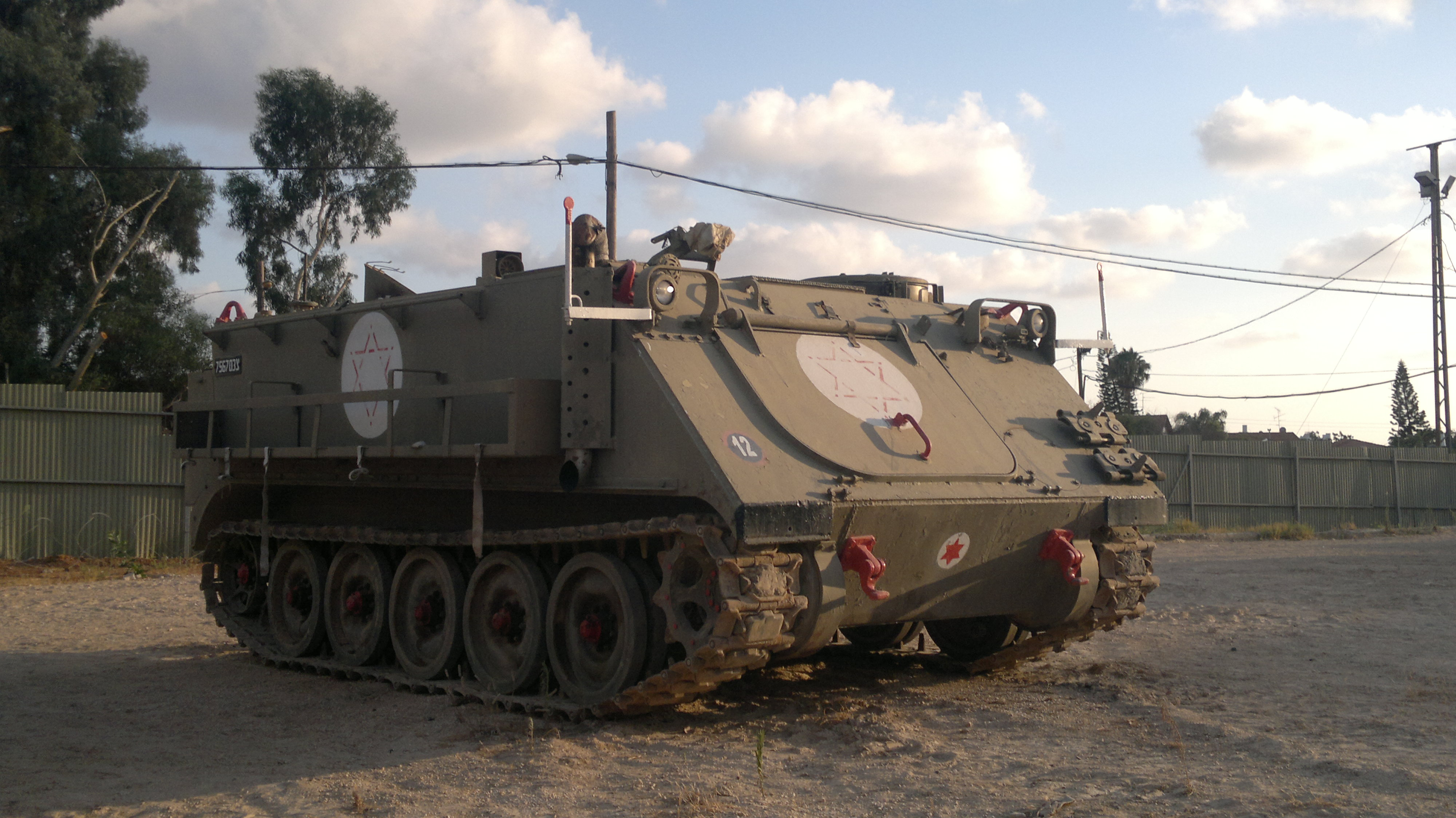 M113 ambulance